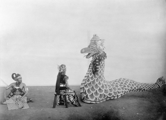 Wayang wong performance 'Jaya Semadi and Sri Suwela' in the palace of the Sultan of Yogyakarta